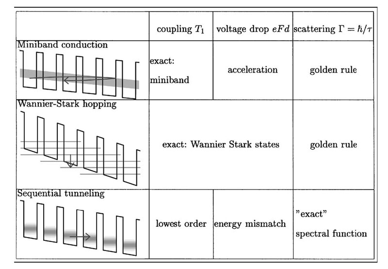 Superlattice transport From Physics Reports 357, (2002) Andreas Wacker